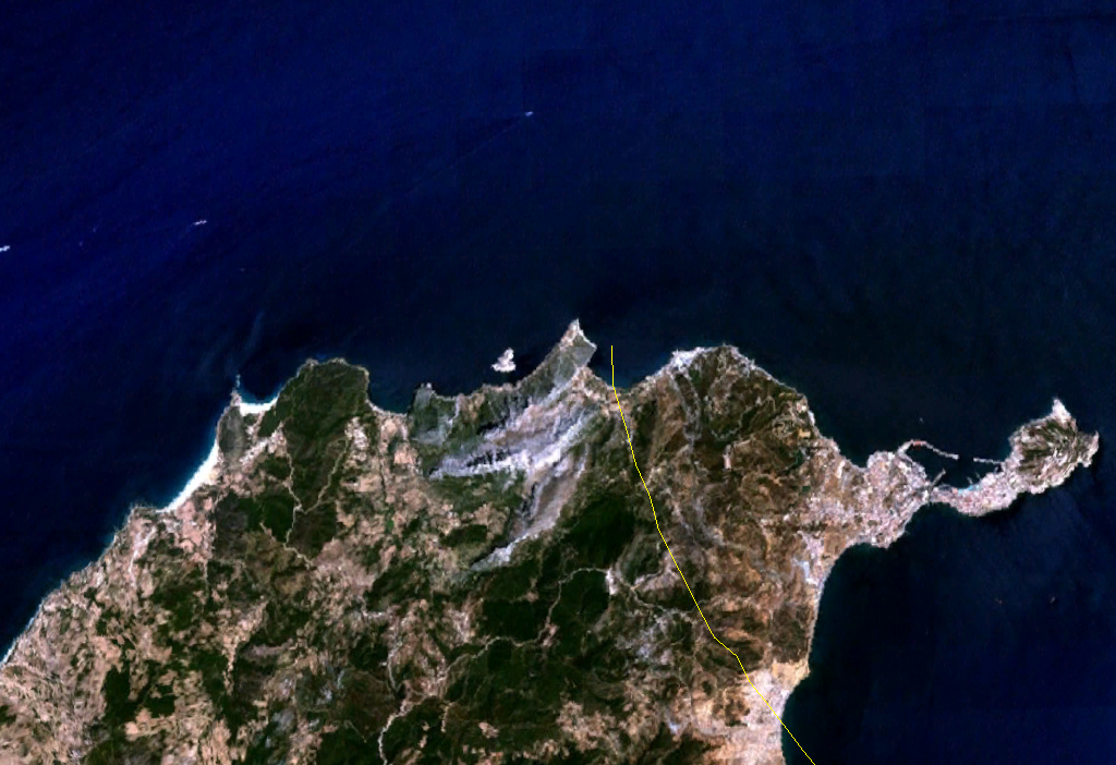 Isla Perejil in North Africa. Satellite picture.